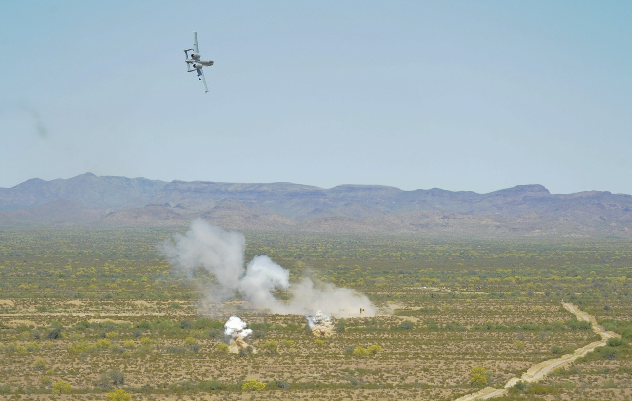 A U.S. Air Force A-10C from Davis–Monthan Air Force Base practices strafing after dropping a BDU-33 on a target at the Barry M. Goldwater Range